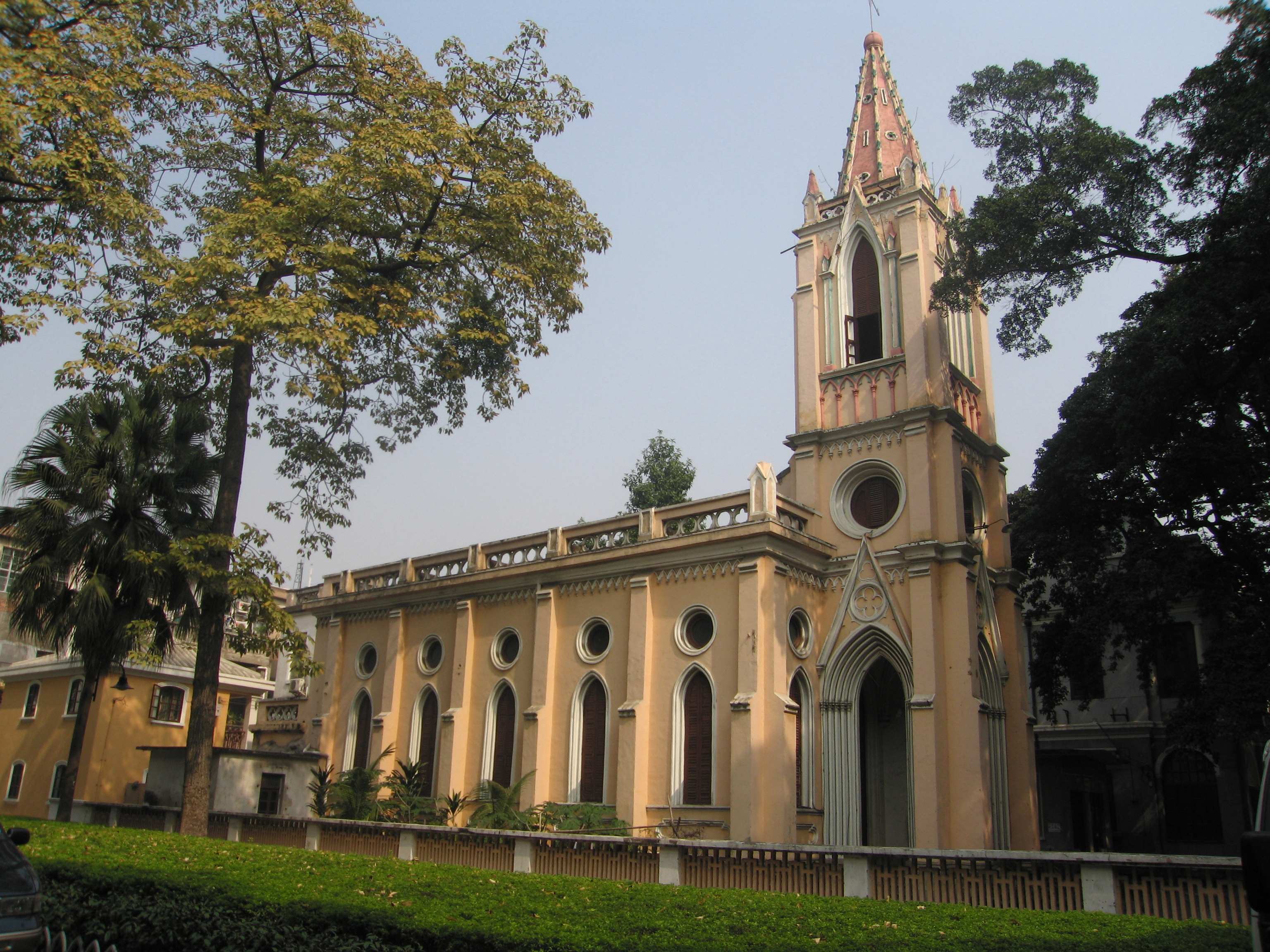 This church is on Shamian Island in Guangzhou.Our Lady of Lourdes Chapel